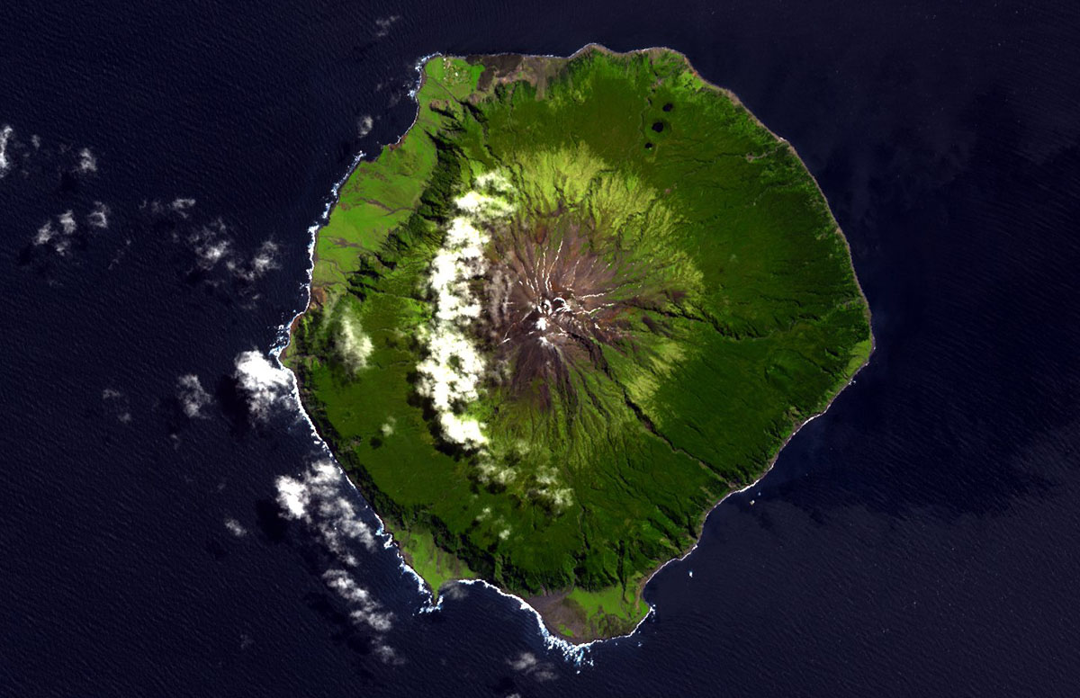 NASA Terra ASTER image of Tristan da Cunha Island, South Atlantic Ocean